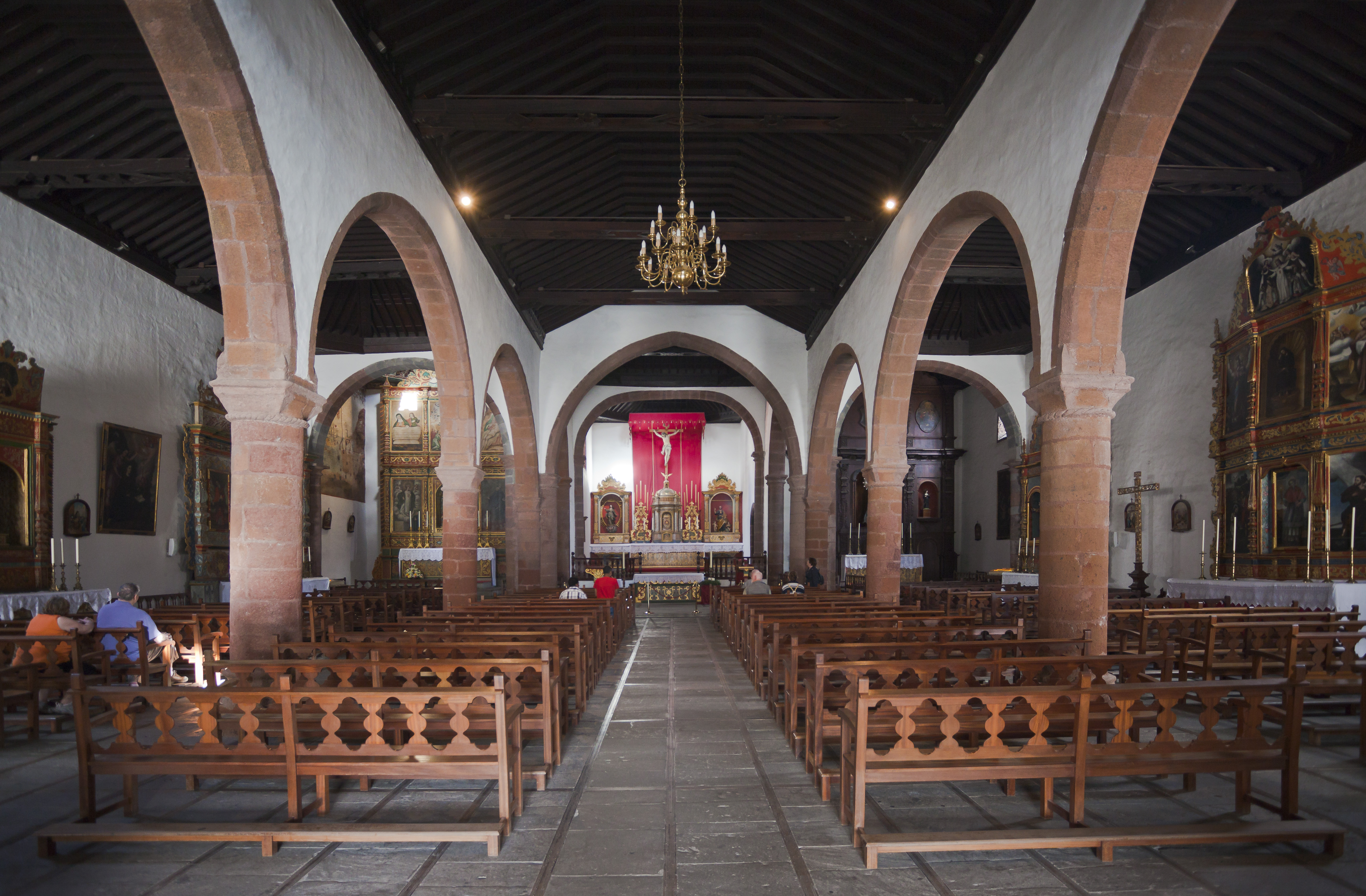 Church of Our Lady of the Assumption, San Sebastián de la Gomera, La Gomera, Spain